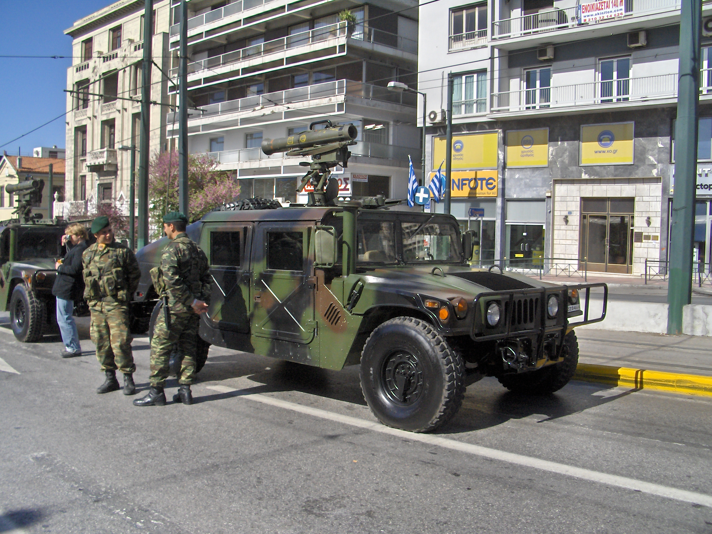 Hellenic Army armoured vehicle at the parade in Athens.